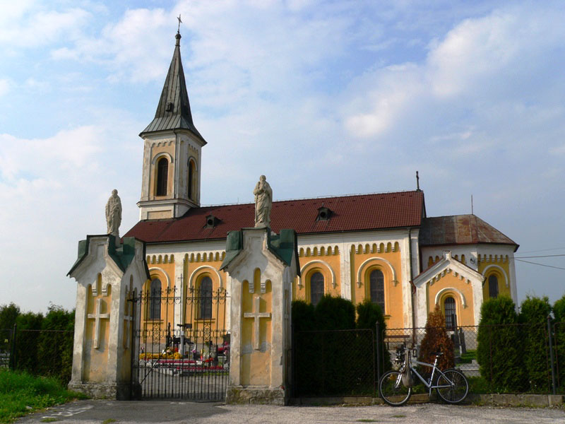 Saint Lawrence Church in Kostelec (Kościelec), Těrlicko (Cierlicko), Czech Republic. Photographed before the reconstruction of the church.